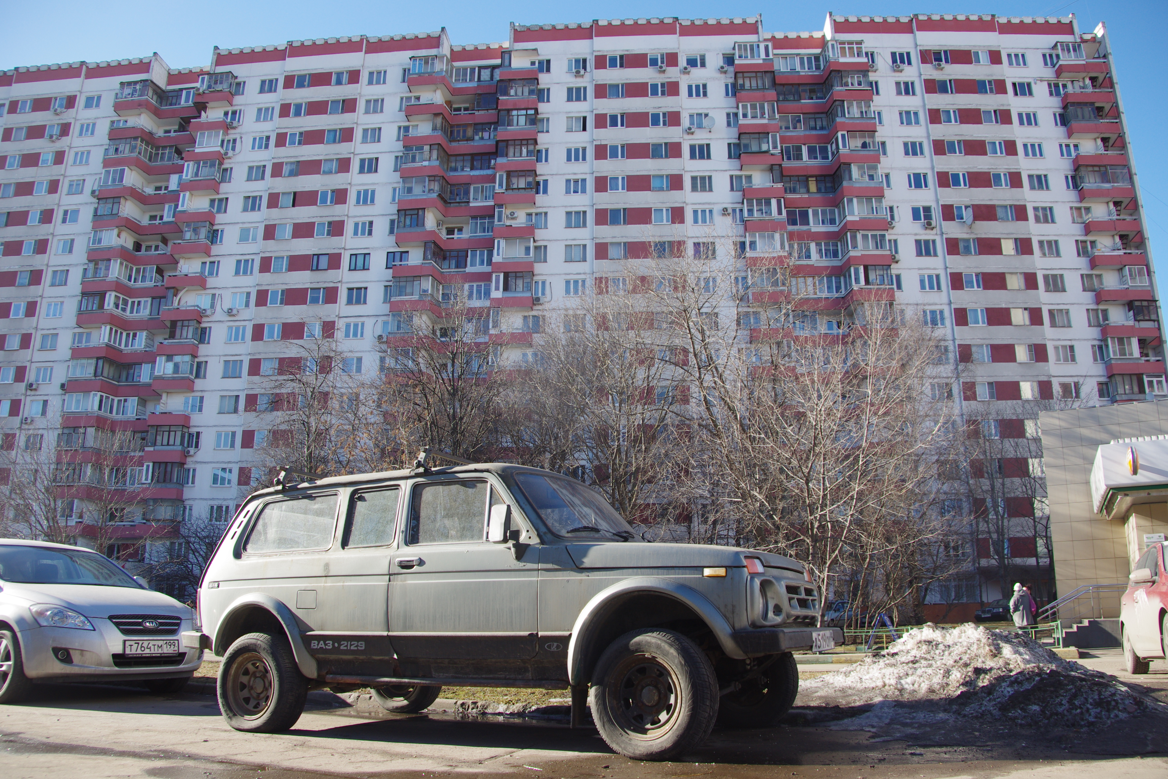 Troparyovo-Nikulino District, Moscow, Russia